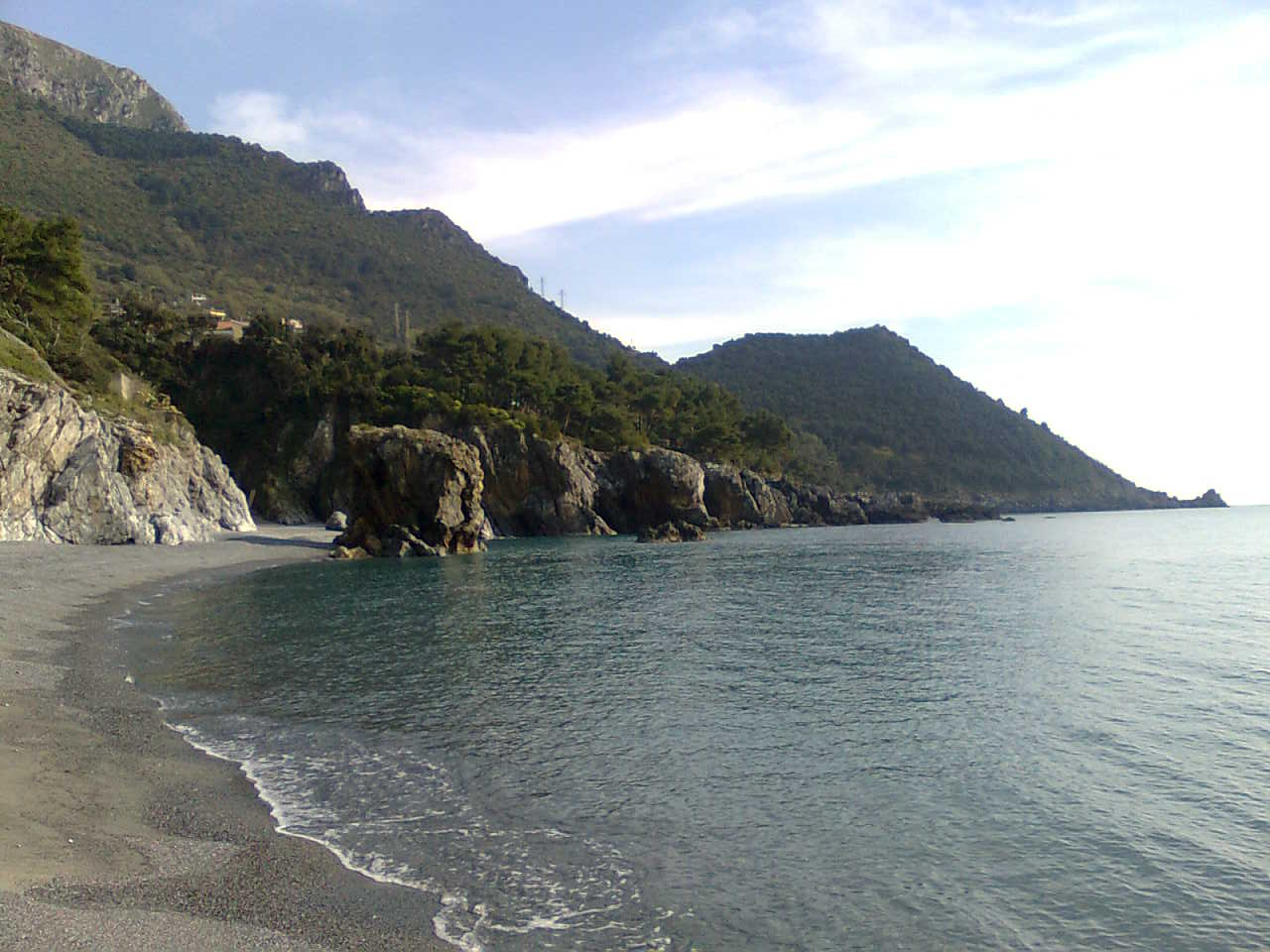 A beach in Maratea Marina.